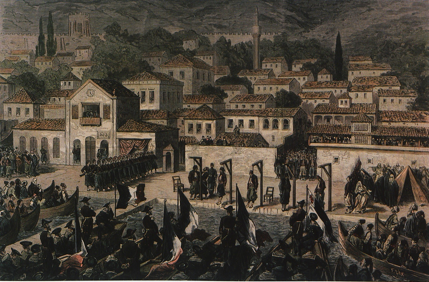 Page of the newspaper "Le Monde Illustré" with the illustartion of the hanging of the convicted for the murder of the consuls Jules Paul Moulin and Henry Abbot.